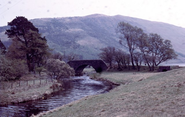 Bridge carrying the road to Tibbie Shiels Inn